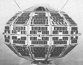 ALOUETTE. An international satellite program, Alouette was a Canadian project in cooperation with NASA and was given its name in May 1961 by the Canadian Defence Research Board. The name was selected because, as the French-Canadian name for meadowlark, it suggested flight; the word "Alouette" was a popularly used and widely known Canadian title; and, in a bilingual country, it called attention to the French part of Canada's heritage. NASA supported the Board's choice of name for the topside sounder scientific satellite. Alouette 1, instrumented to investigate the earth's ionosphere from beyond the ionospheric layer, was launched into orbit by NASA from the Pacific Missile Range 28 September 1962. It was the first satellite designed and built by a country other than the United States or the Soviet Union and was the first satellite launched by NASA from the West Coast. Alouette 2 was orbited later as part of the U.S.-Canadian ISIS project (see ISIS). NASA's Explorer 20, launched 25 August 1964, was nicknamed "Topsi" for "topside sounder"; it returned data on the ionosphere to be compared with Alouette data, as well as data from Ariel 1 and Explorer 8 and sounding rockets.